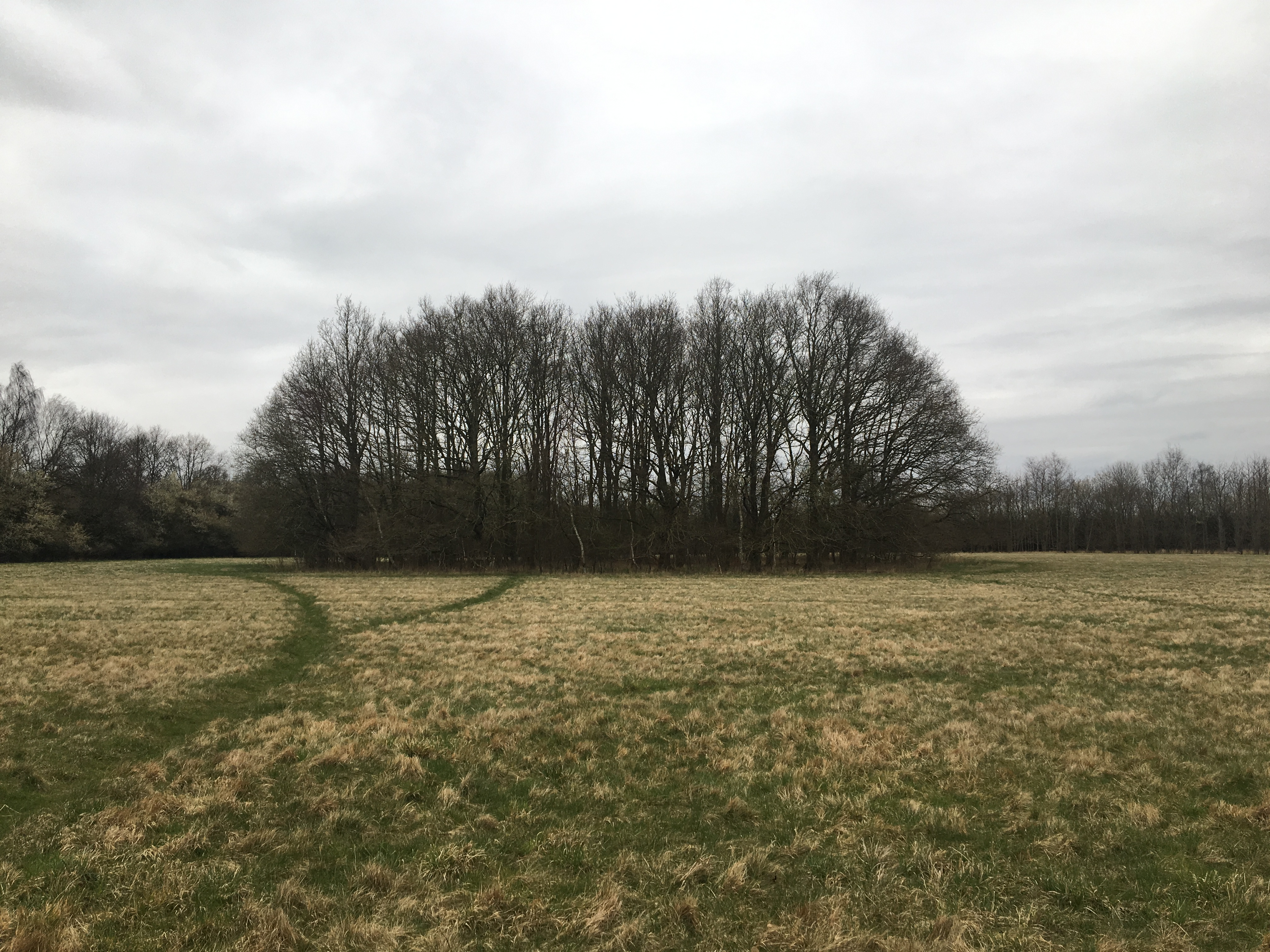 a group of trees in Vestskoven. It's a group consisting of 85 oak trees, planted April 1968 ege, and was a gift from the family of the actor Poul Reumert, to commemorate his 85-years birthday